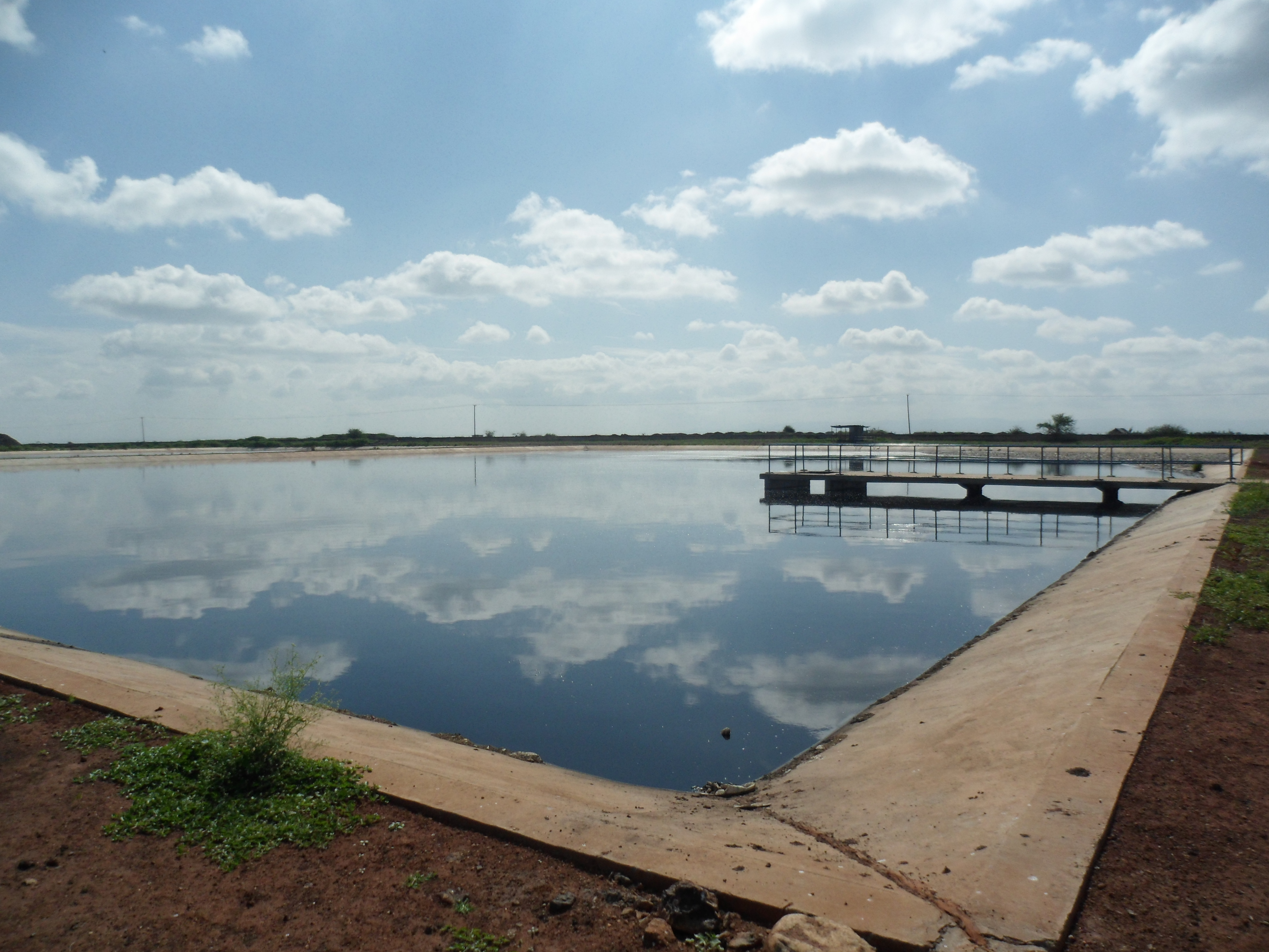 Solid waste is still present in the ponds due to the manual screening system